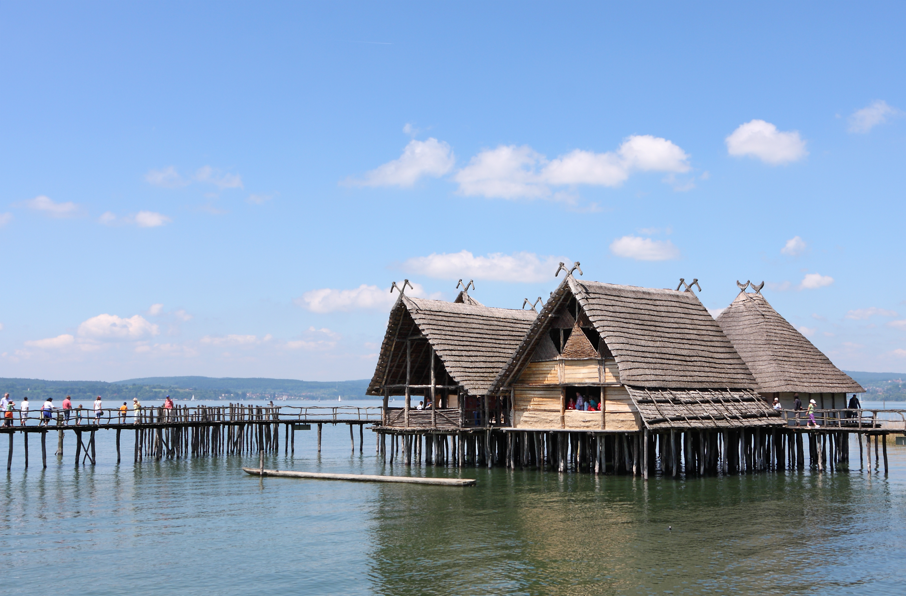 Stilt houses in Unteruhldingen, Germany